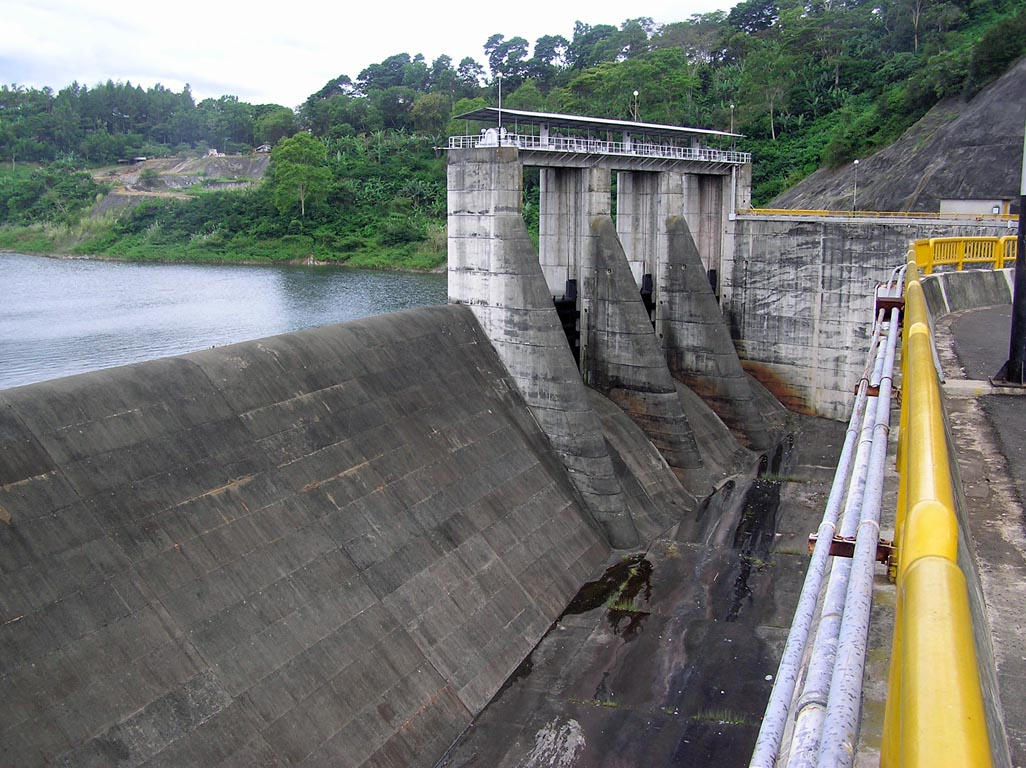 Saguling Dam